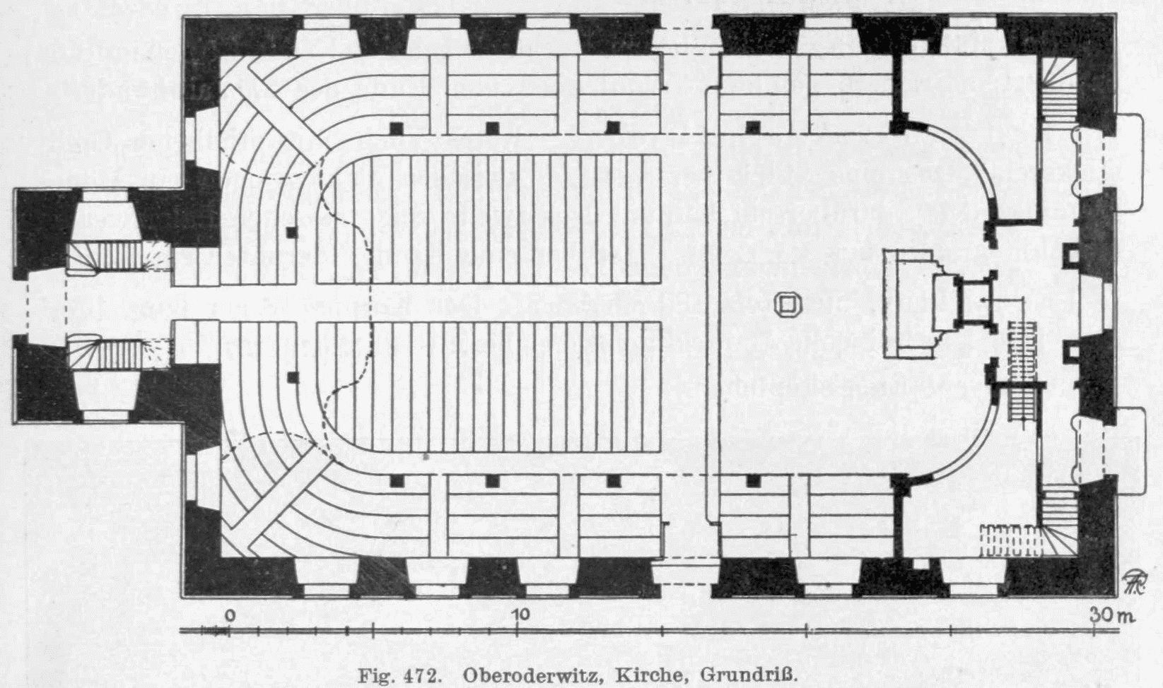 Footprint of the church in Oberoderwitz